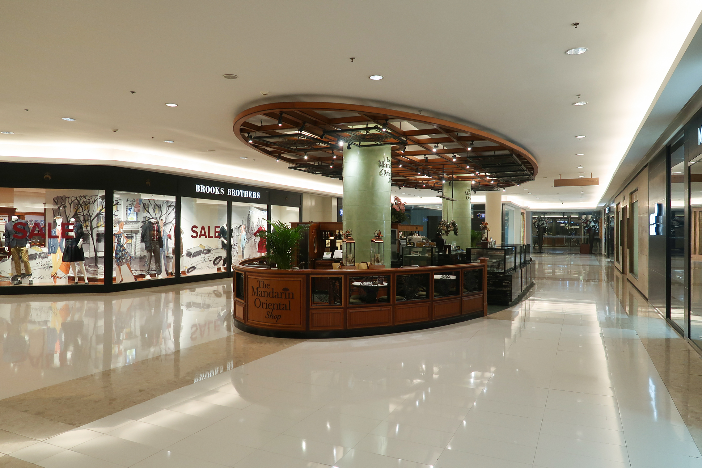 Gaysorn Village GF